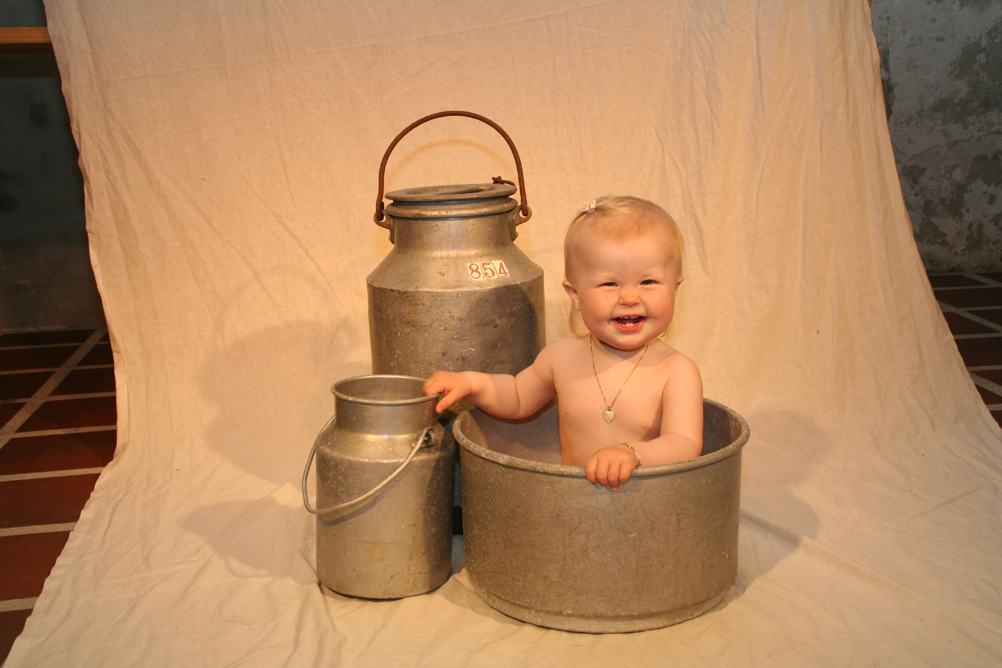 Little girl sitting in a milk basin for a portrait.